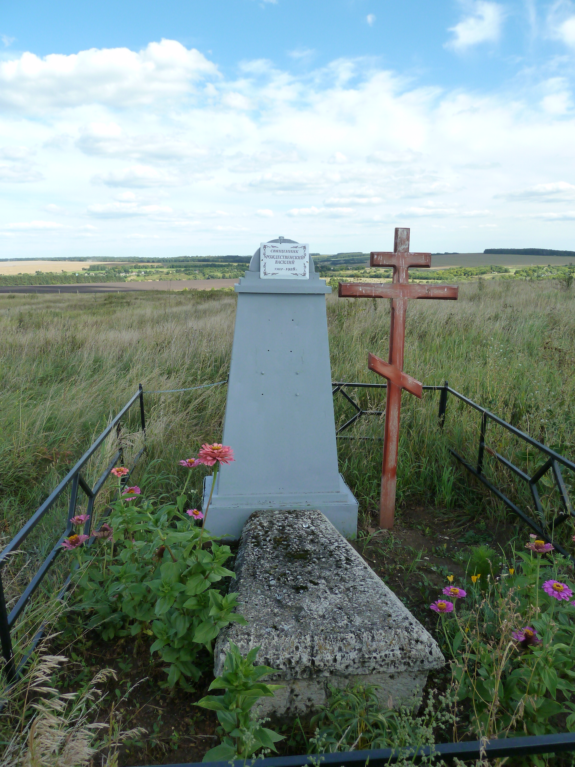 в этом месте стояла Яковлевская Крестовоздвиженская церковь